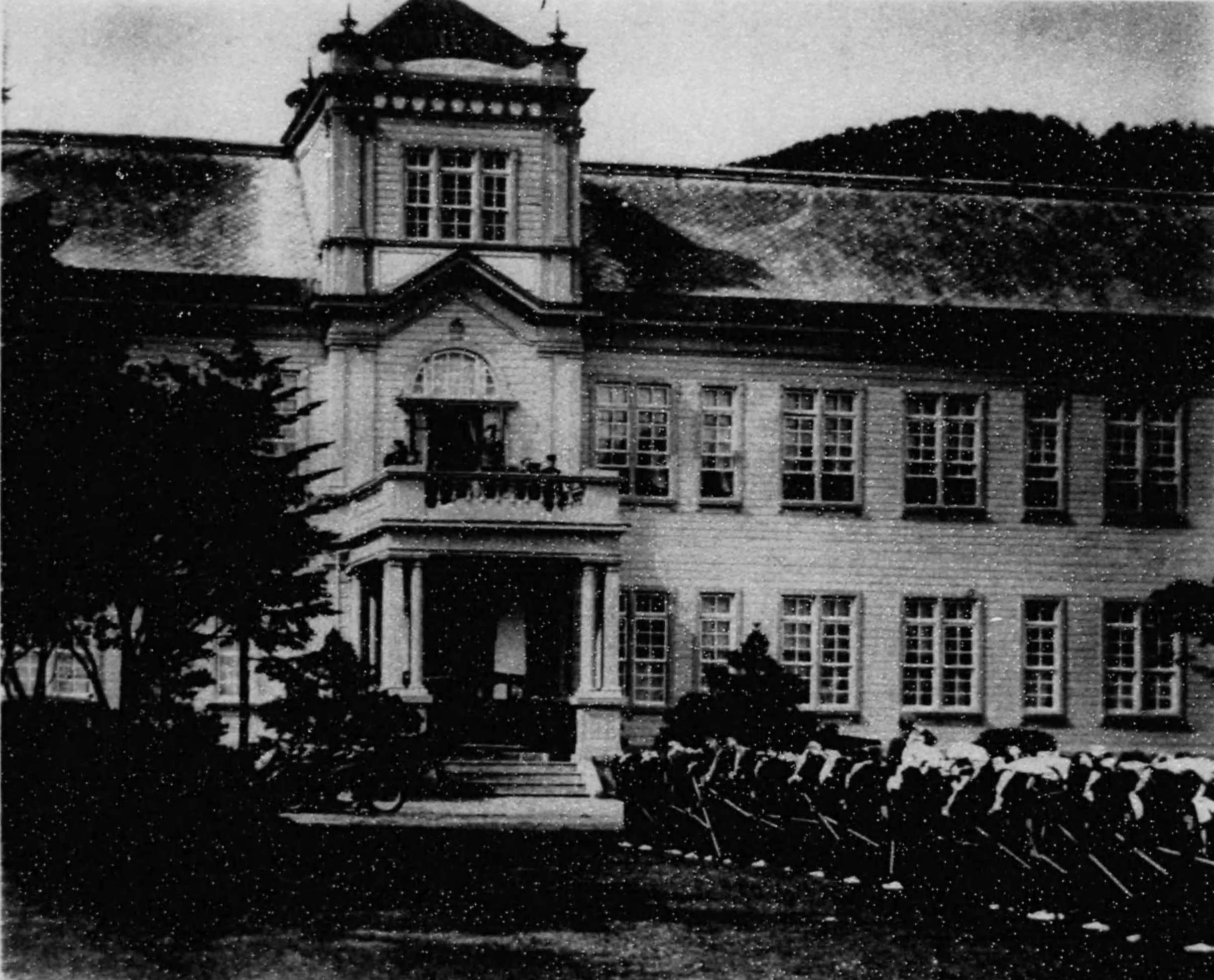 Otaru Higher Commercial School